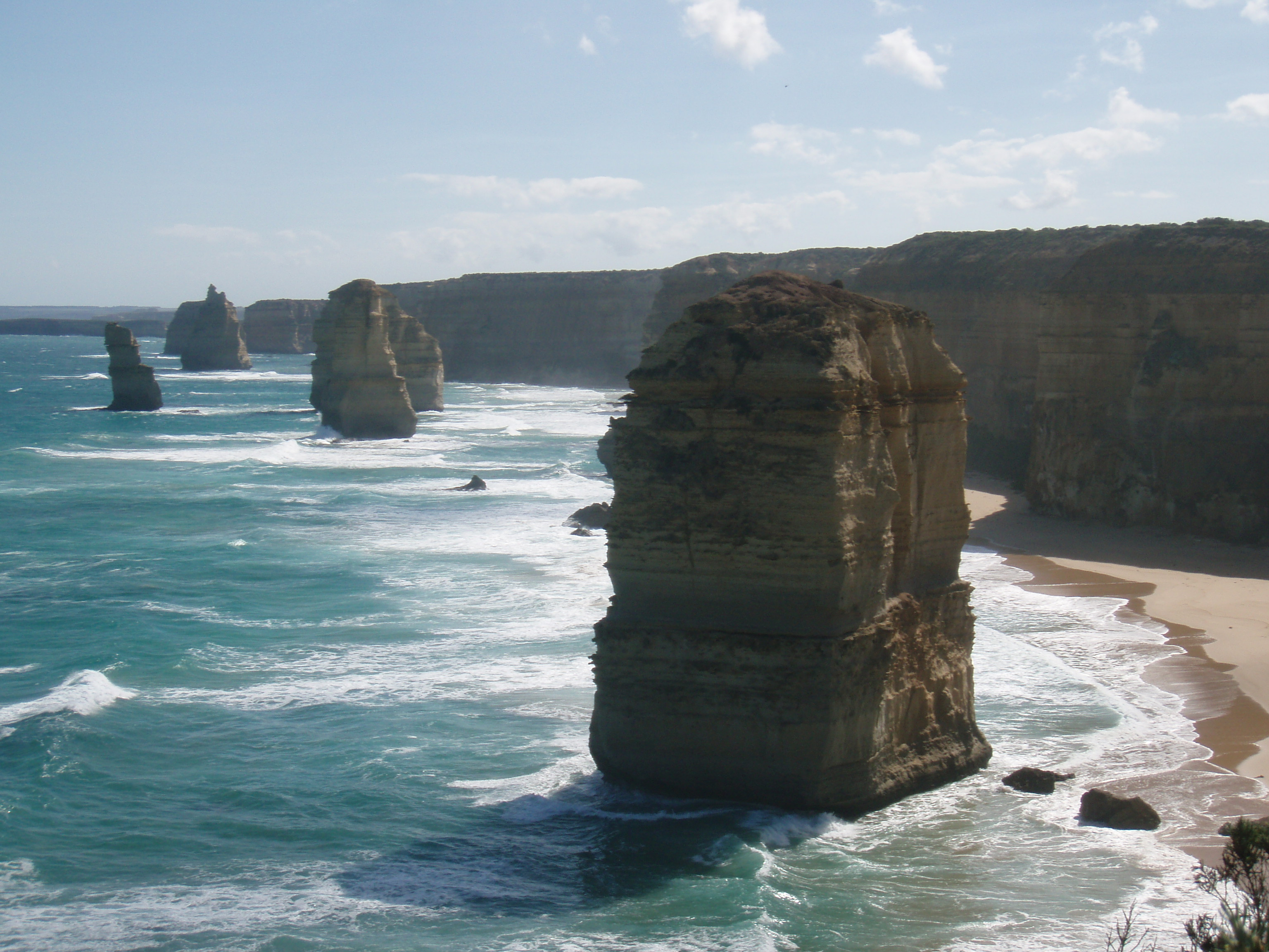 Twelve Apostles, Victoria, Australia (April 2007)